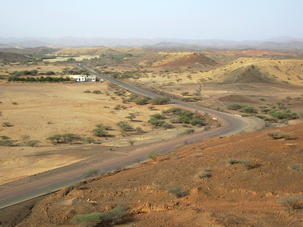 A 115-kilometer highway links Massawa on the Red Sea to Asmara, Eritrea.